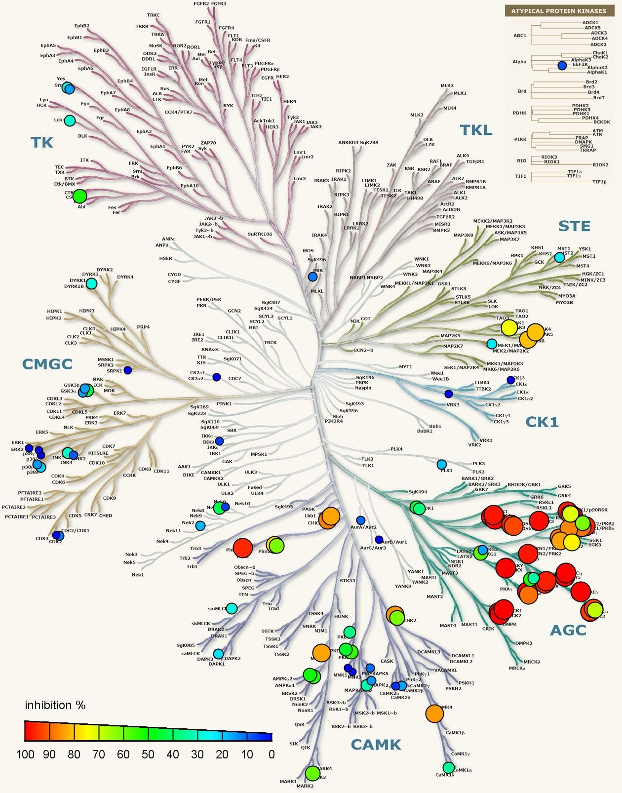 Oligoarginine ARC-inhibitor selectivity profile.